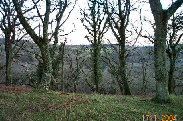 Dendle's Wood - Dartmoor. Part of Dendle's Wood - SX 615620. This wood is a Dartmoor delight of trees, water, moss and lichen. There are many glens filled with the sound of rushing water. A lot of the wood is a nature reserve and access is prohibited. Dendle may derive from "Dene" (Saxon - a forest) and "Wald" (German - a valley).